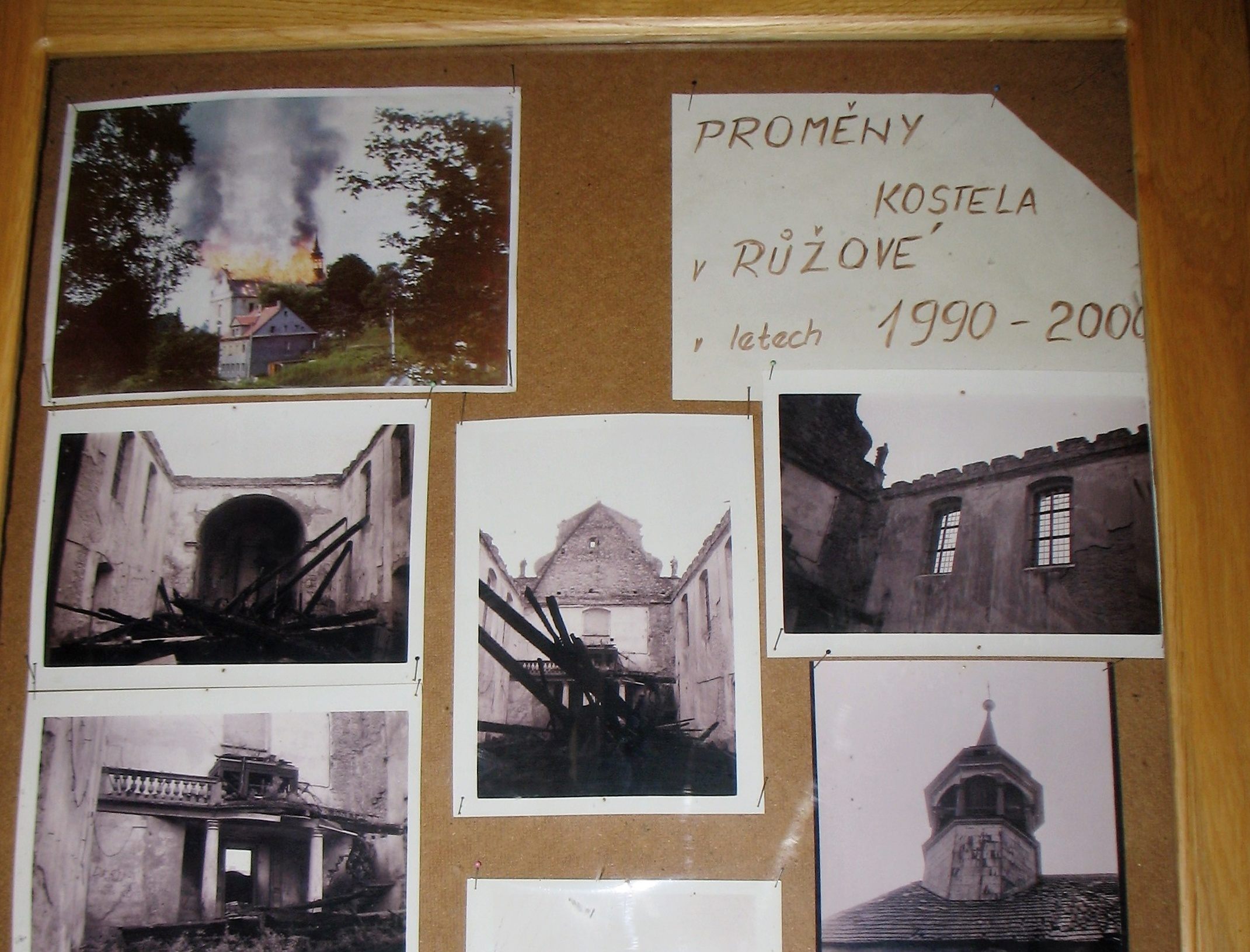 Interior of the church of Saints Peter and Paul in Růžová, Děčín District